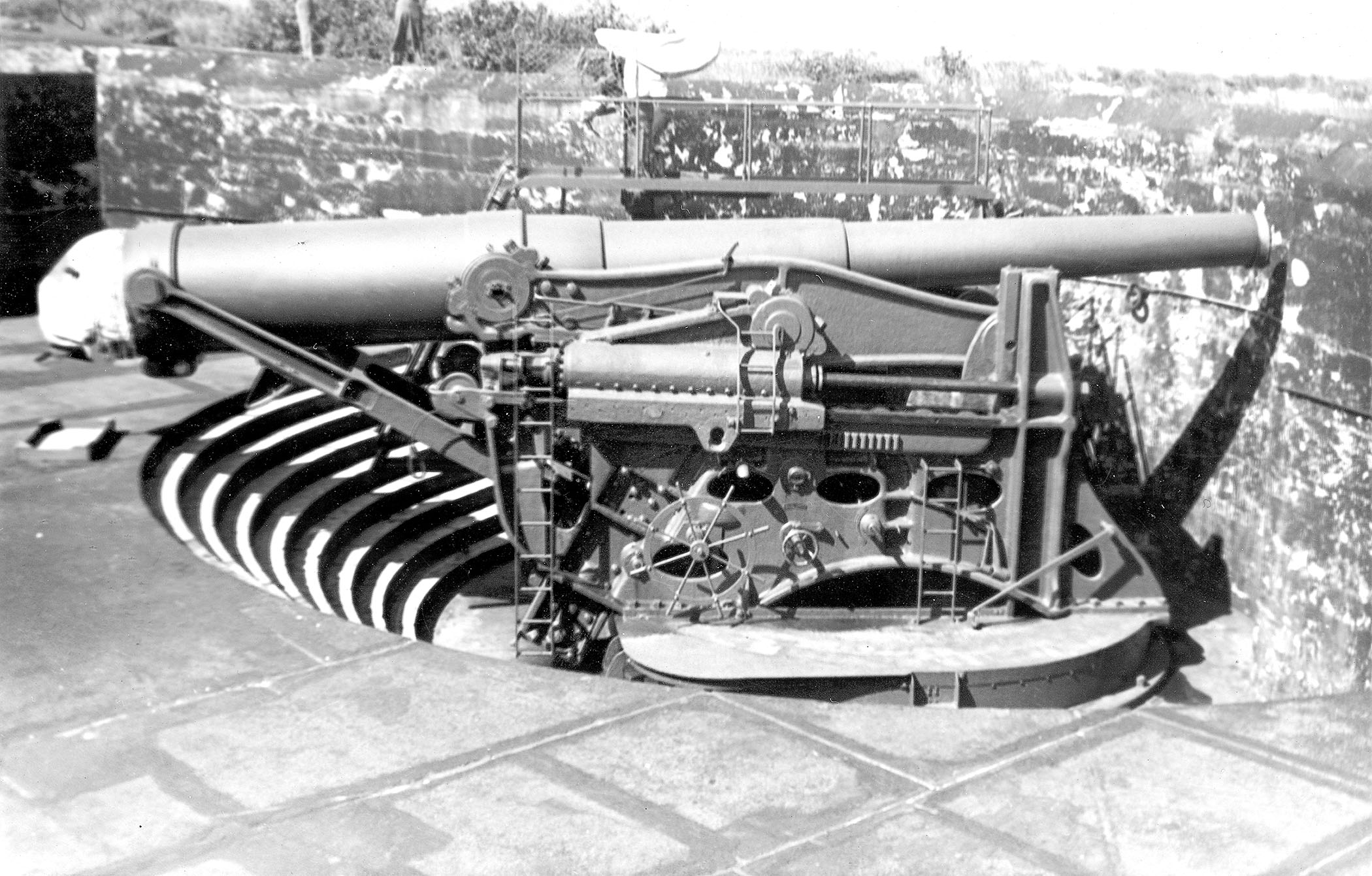 This is a 12-inch gun M1895 on a disappearing carriage, M1896. Note: The gun is shown here in the "from battery" position, with its breech lowered (for loading) to a level just above the gun platform. After loading, the tripping lever (seen here slanting back and down from the front of the carriage) was released, letting a 9 foot tall, 82-ton pile of lead weights (the counterweight) descend into a pit beneath the carriage, and rotating the gun, suspending from the two massive gun levers, up and forward so that its muzzle rose above the parapet for firing. After firing, the gun's recoil was damped primarily by the two large recoil cylinders, one on each side of the top carriage, and also by the work of lifting the counterweight back into position, where it was held until the tripping lever was released again. The two long bars running back to the carriage from near the breech of the gun are the gun arms, which guided the breech during recoil and were used to elevate the gun. The bright white object at top center-left is the telescopic sight for the gun, covered by a protective tarp. The soldier sighting the gun did so from the catwalk on the top left side of the piece. From here he could control the motors that traversed the gun carriage and changed the elevation of the gun. He could also fire the gun electrically.